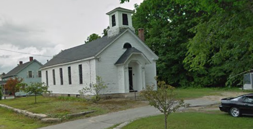 Manchaug Baptist Church